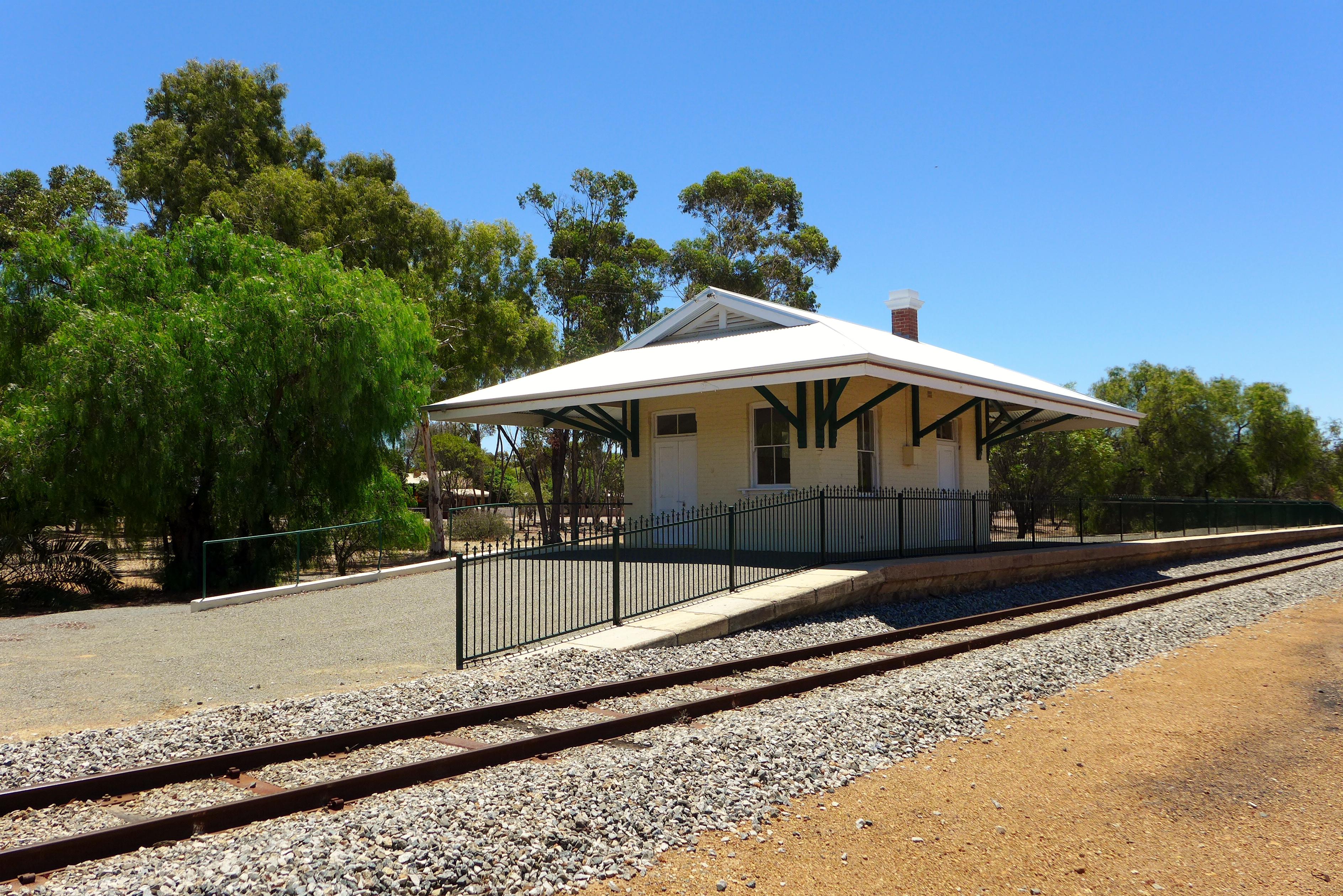 The station building and platform at the railway station in Popanyinning, Western Australia.